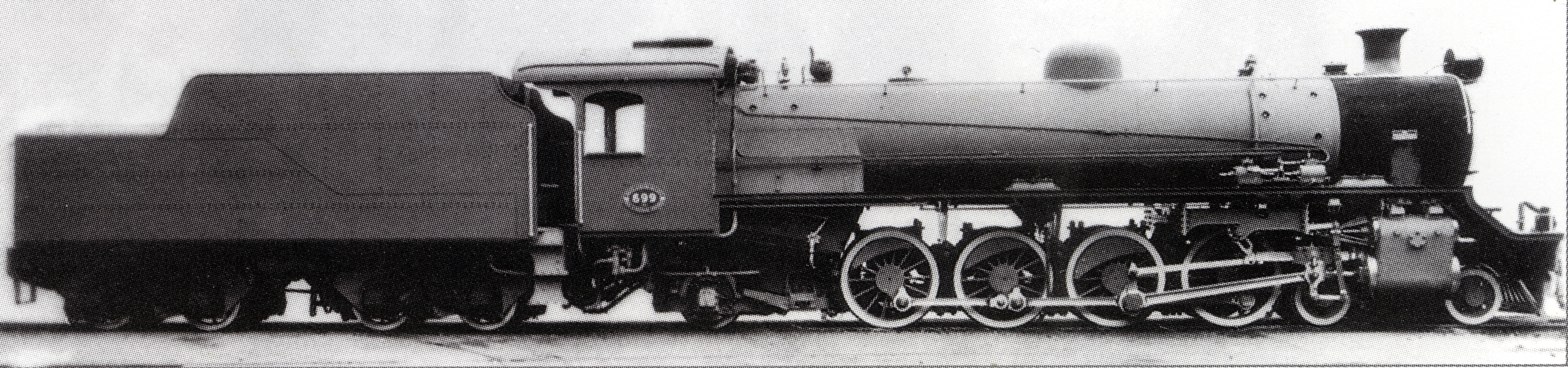 Works picture of South African Railways Class 19A no. 699